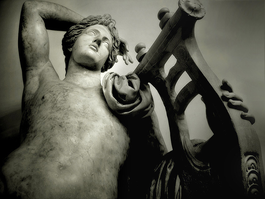 Detail of Apollo citharoedus or Apollo with the griffin, Musei Capitolini, Rome.